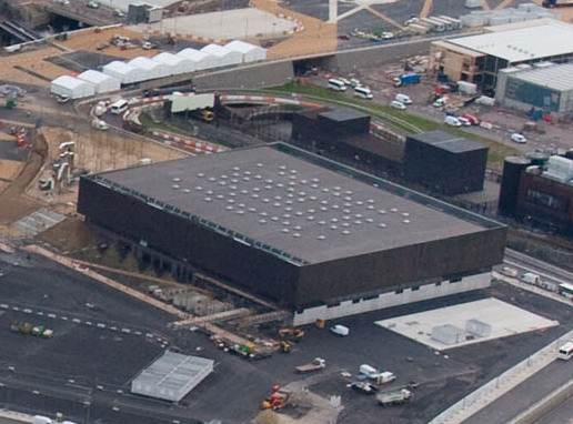 Construction of Olympic Park, London — April 2012. Aerial view of the Copper Box venue in Olympic Park — shot looking south east. Picture taken on 16 April 2012.